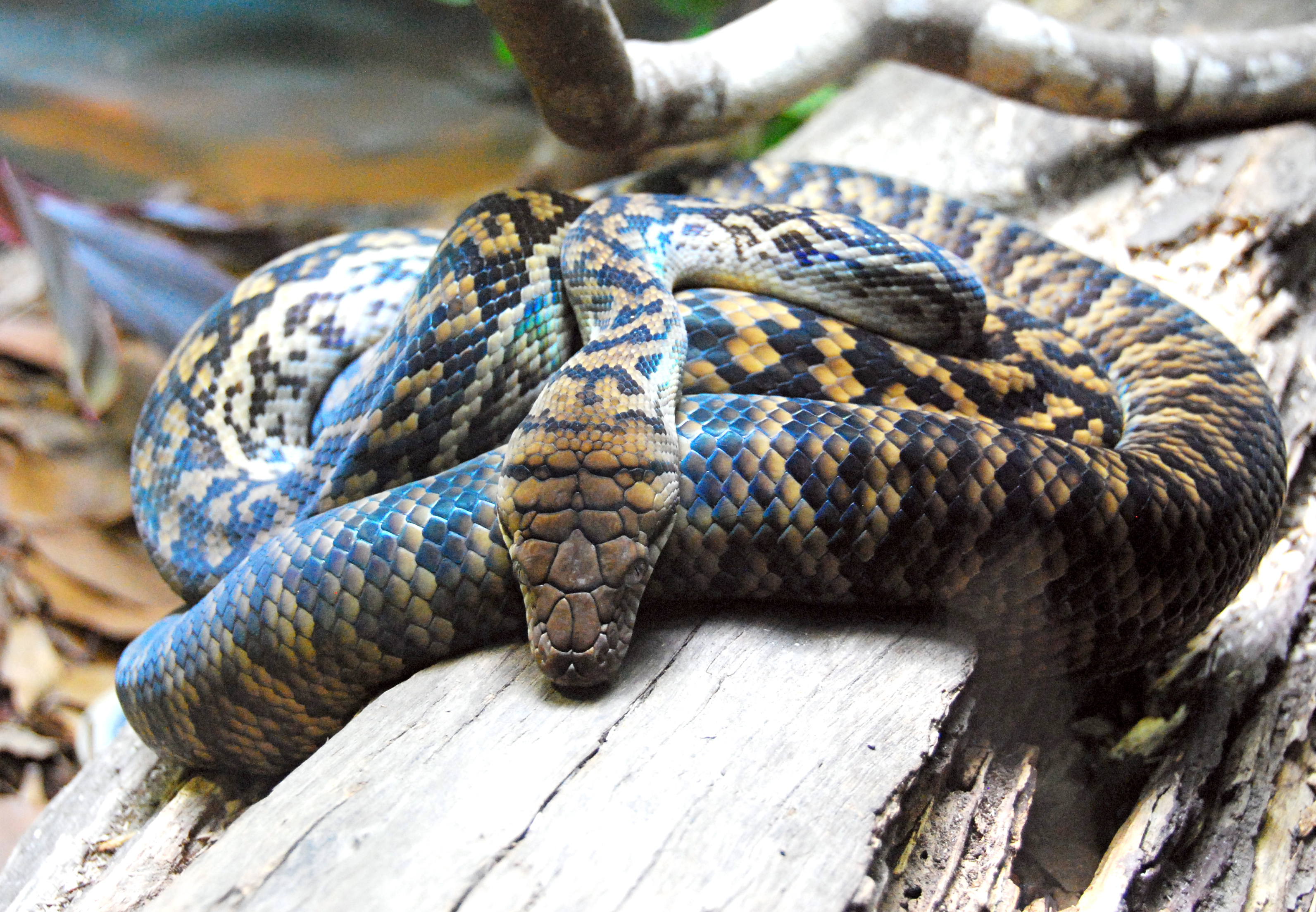 Australian Scrub Python (Morelia kinghorni) at Australian Zoo